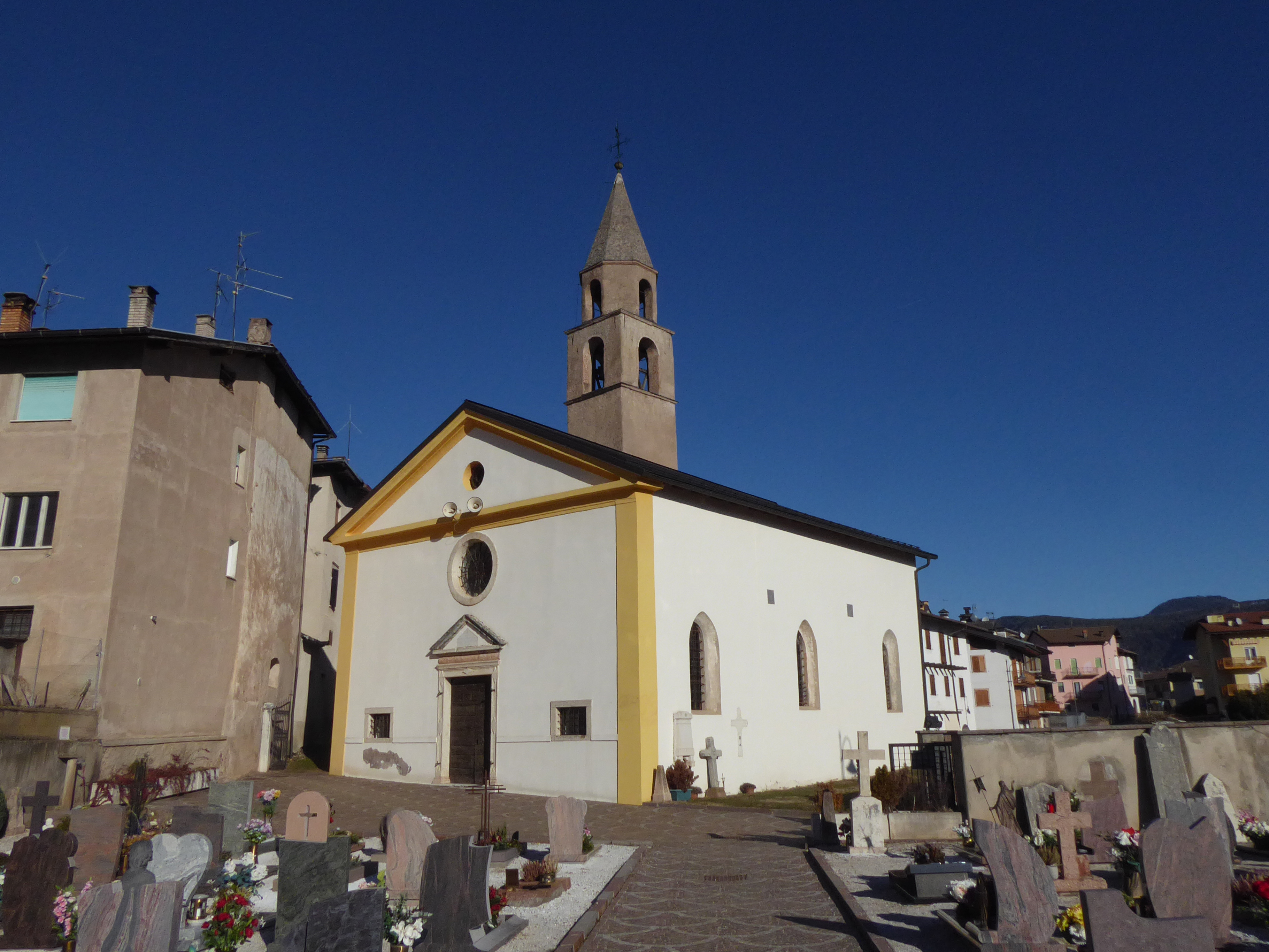 Fornace (Trentino, Italy) - Saint Anthony of Padua church